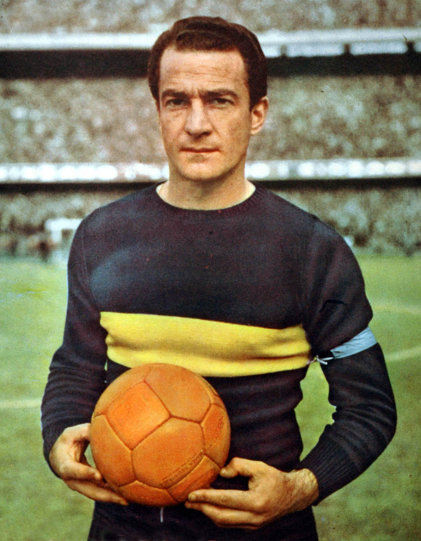 Ernesto Grillo during his time as a Boca Juniors player.